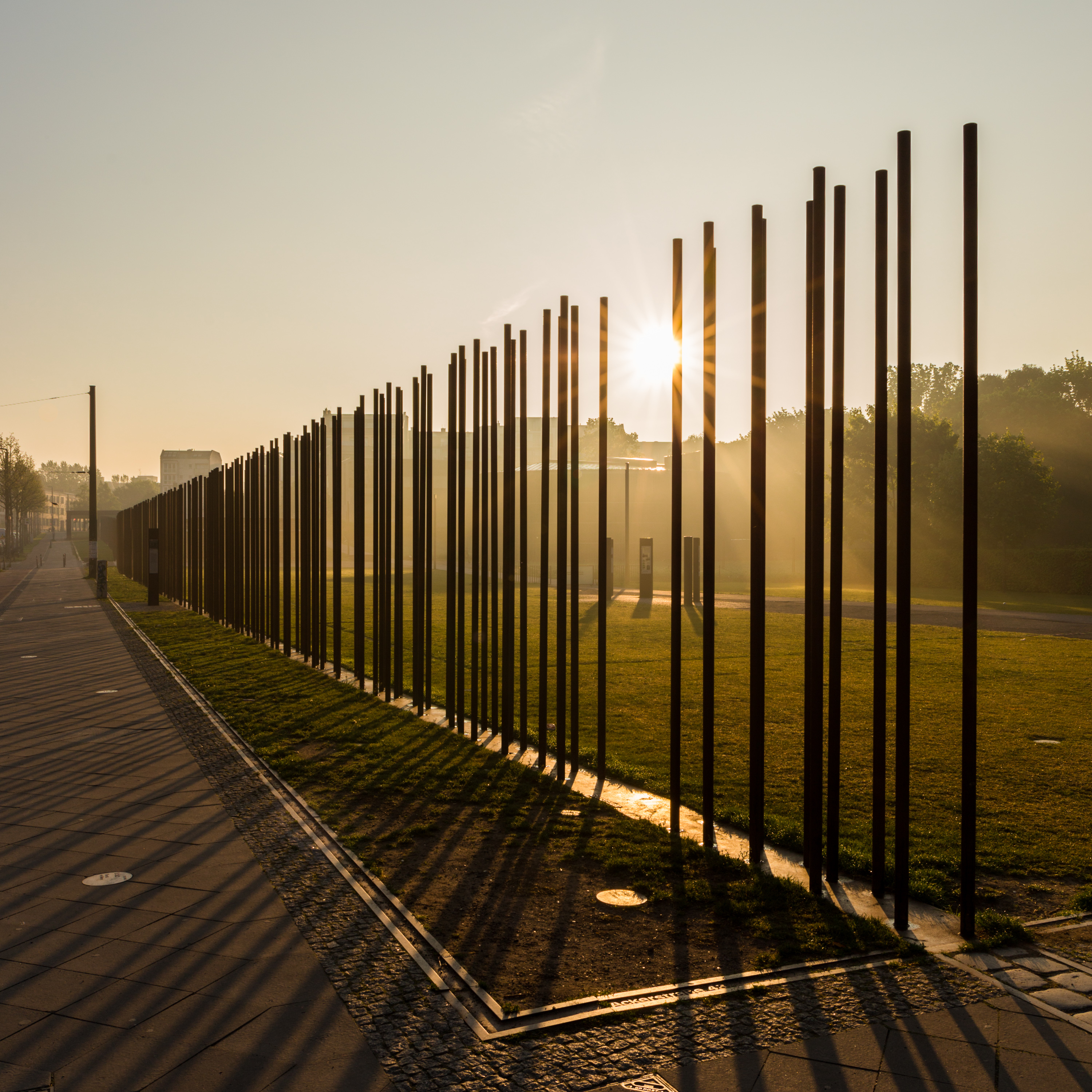 Berlin Wall Memorial site Bernauer Straße in the early morning light.